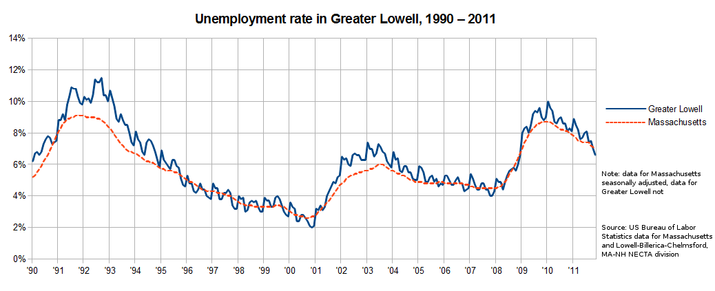 Unemployment rate in Greater Lowell (Lowell-Billerica-Chelmsford, MA-NH NECTA division) from January 1990 through November 2011, with same data for Massachusetts for comparison. Reference for Greater Lowell data: for Massachusetts data